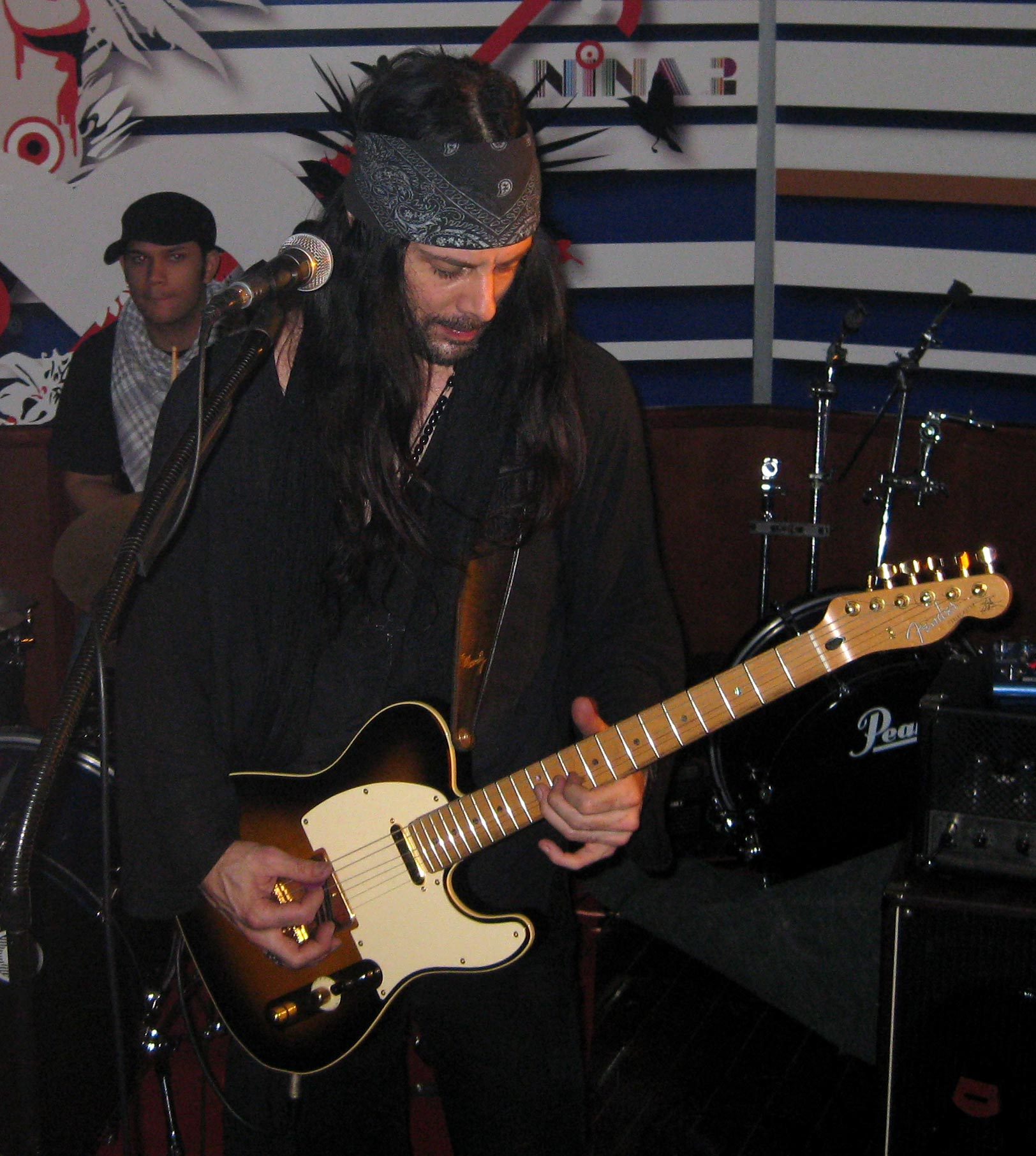 Richie Kotzen performing live at ship club Nina 2 in Rijeka (Croatia) on February 17th, 2009. Damien Arriaga (drummer, percussionist) in the background.